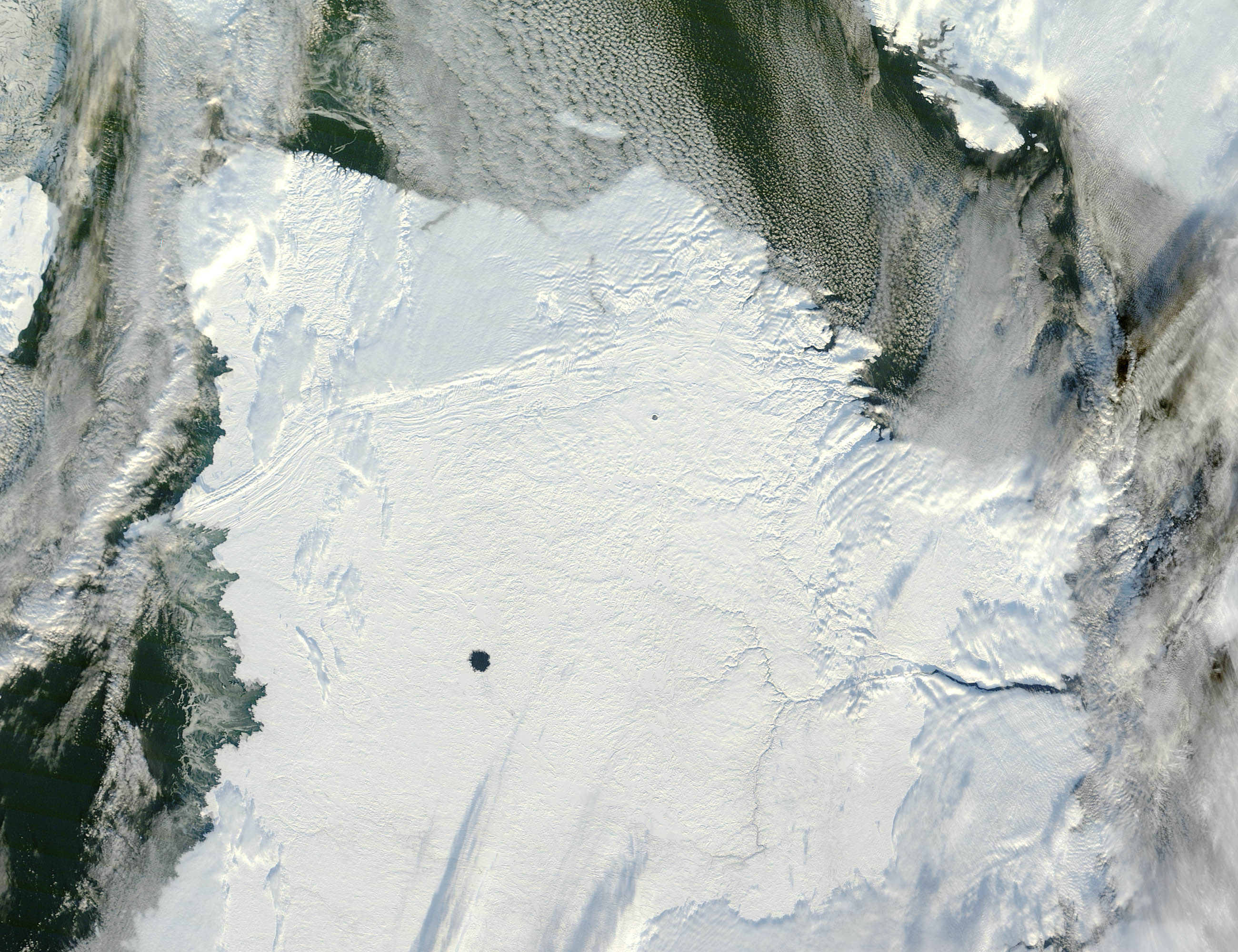 Ungava Peninsula with ice-free impact crater lakes Couture and Pingualuit.